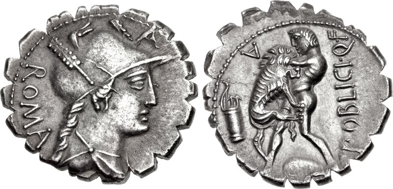 C. Poblicius Q.f. 80 BC. AR Serrate Denarius (19mm, 3.97 g, 4h). Rome mint. Draped bust of Roma right, wearing helmet ornamented with gryphon’s head, and at each side a feather; ROMA downwards to left; A above / Hercules, naked, standing left, and strangling the Nemean lion; club on ground at his feet; bow case to left; A above left; [C] • POBLICI • Q • F upwards to right. Crawford 380/1; Sydenham 768; Kestner 3220-1 var. (control letter); BMCRR Rome 2896; Poblicia 9; CNR 18/1. EF, toned, small die break on obverse, hairline flan crack, a couple shallow scratches under tone. Exceptional detail on reverse.